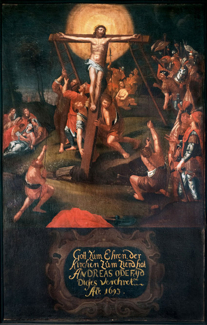 The license is only valid for the file size 425X667, otherwise my copyright applies. The picture is a reproduction of the oil painting "Die Kreuzaufricht" in the Schifferkirche of Arnis. "The erection of the cross" is one of the most important works of art there. It was founded in 1693 by Andreas Odefeyd, then a resident of Arnis Island. Odefeyd was probably the first new settler to return to the island after the great crisis as a result of the Swedish-Brandenburg War, enticed by a 10-year tax exemption newly announced at the time by Duke Christian Albrecht of Schleswig-Holstein-Gottorf. The painting is the only remaining object from the possession of an Arnisian from the founding period. Like other paintings in Augsburg or Antwerp, the painting goes back to Christoph Schwartz's painting of the same name, which is now hanging in the Lenbach House in Munich.